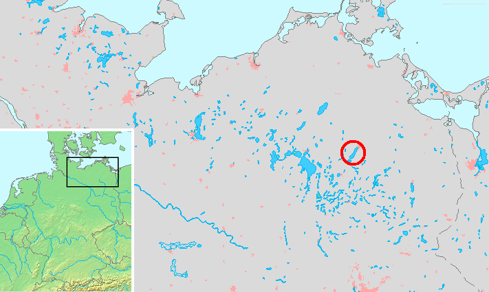 Locator maps of lakes in Germany : Location Tollensesee.PNG